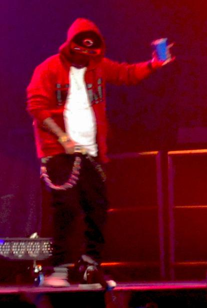 Jae Millz performing at General Motors Place in Vancouver.